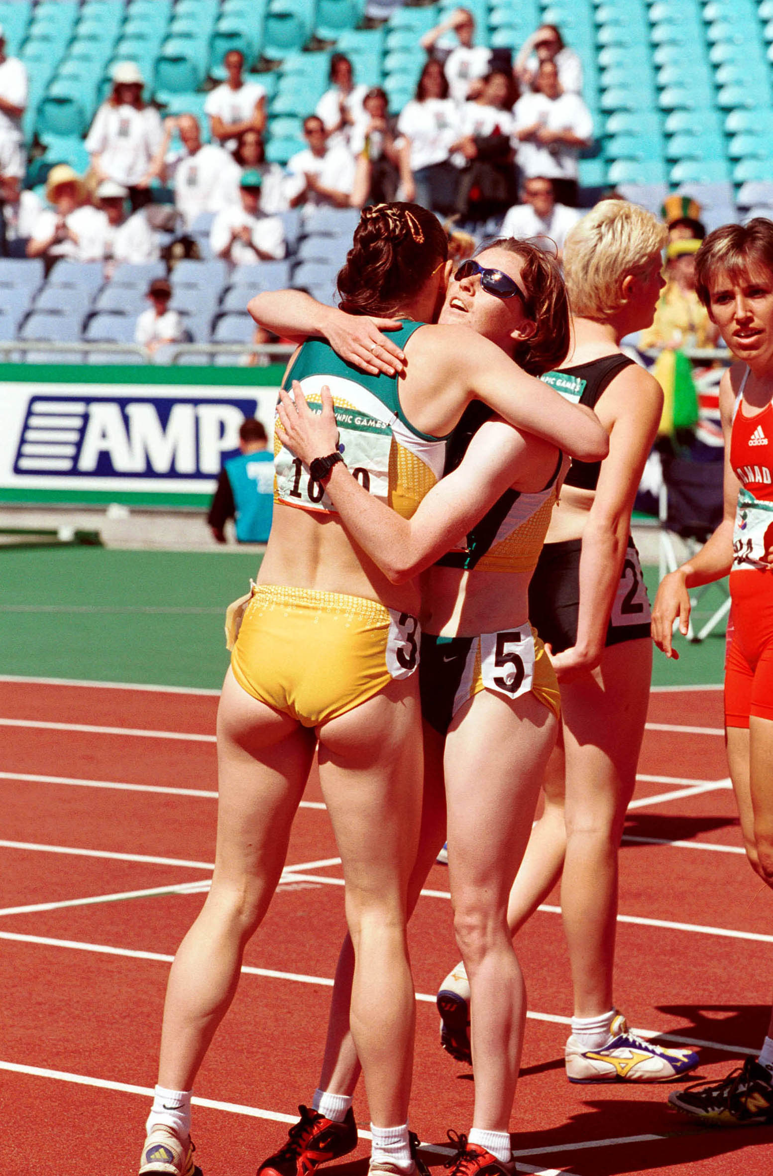 Australian athletes Lisa Llorens and Sharon Rackham hug during track competition at the 2000 Sydney Paralympic Games, Day 07